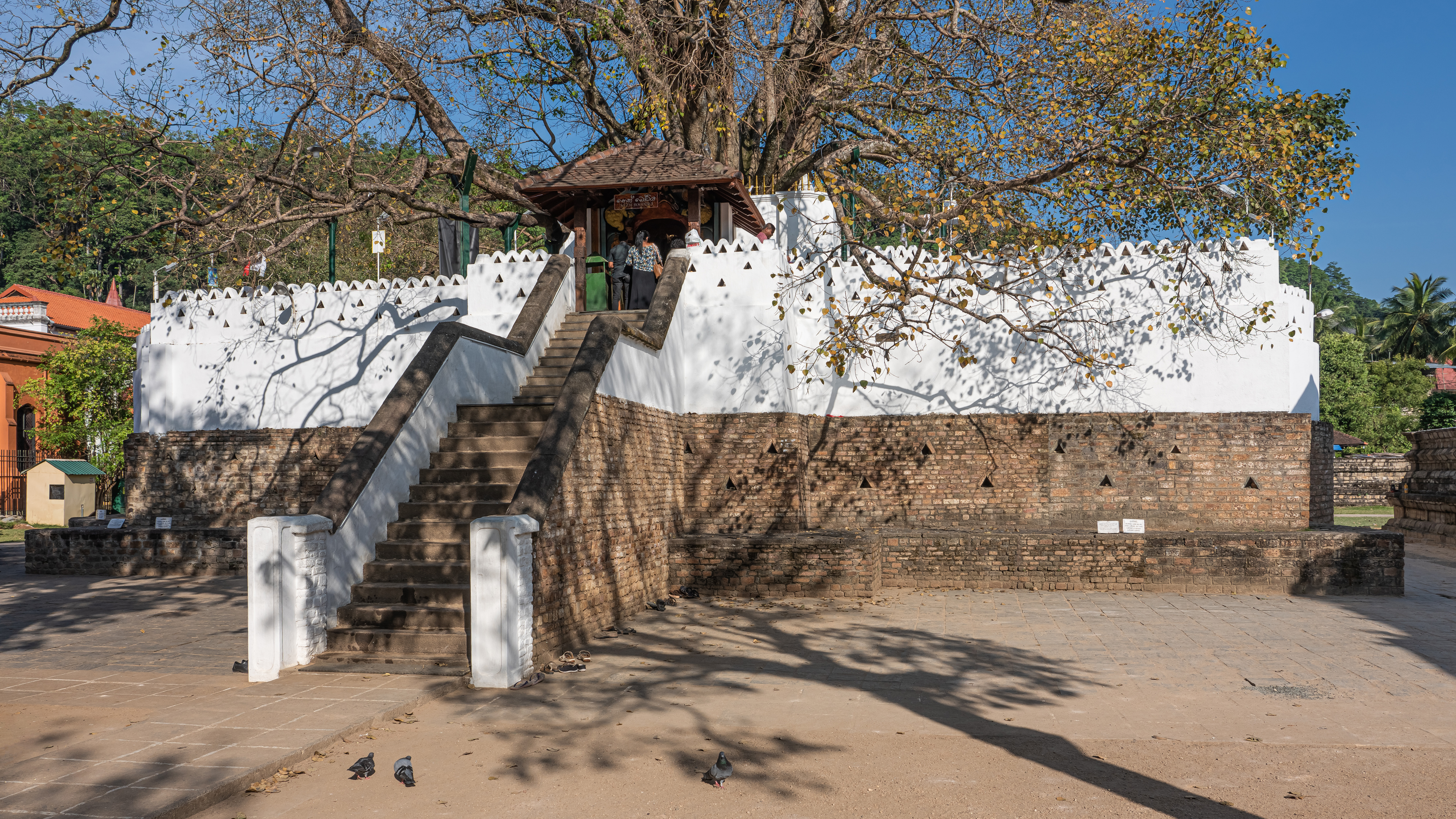 Natha Devale temple complex in Kandy, Sri Lanka